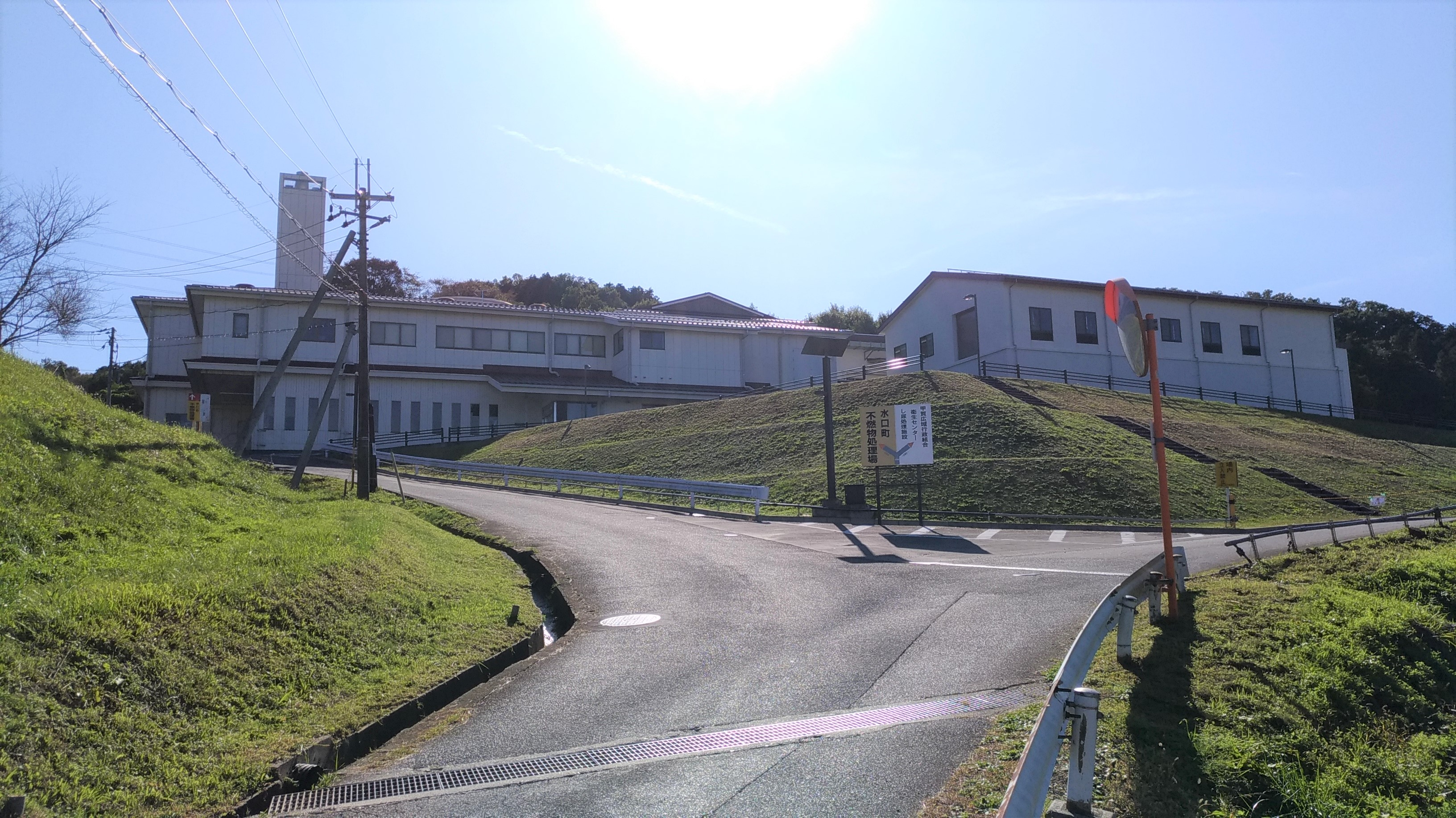 Night-soil treatment plant at Minakuchi, Koka, Shiga, Japan